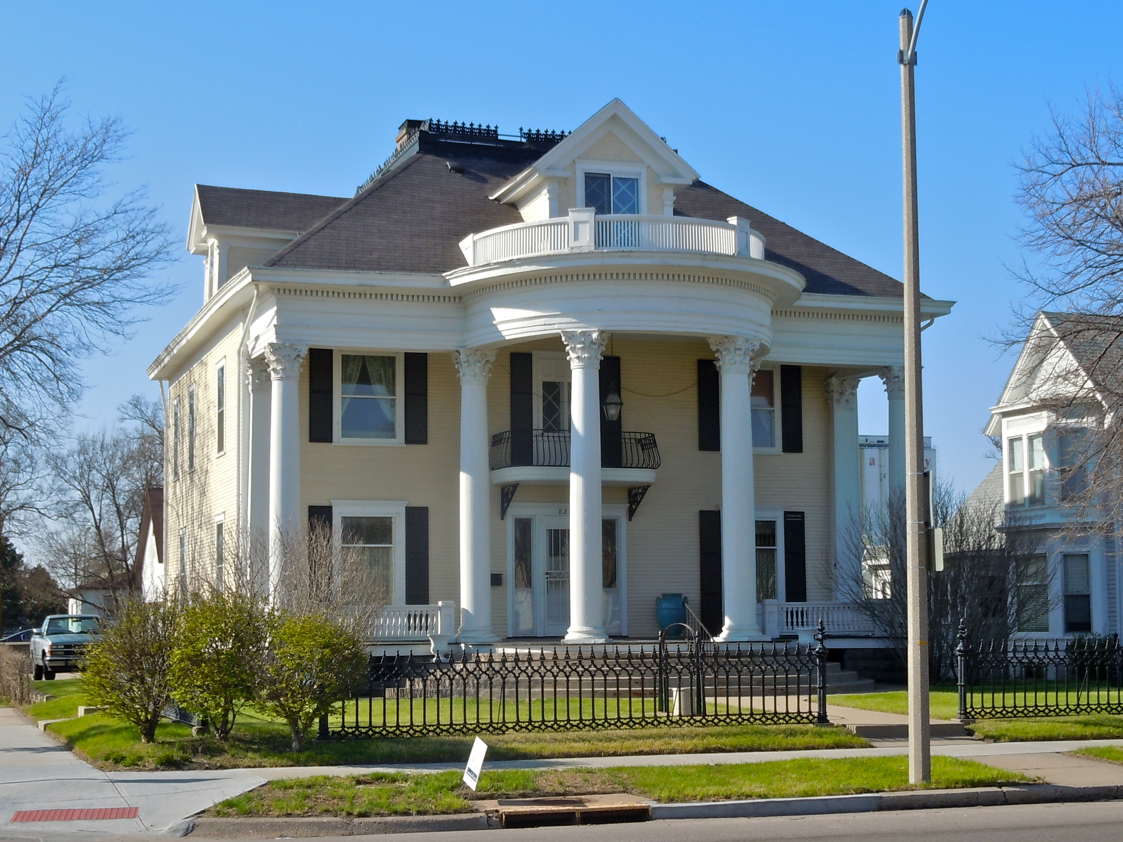 Hamilton-Donald House on the NRHP since March 13, 1986. At 820 W. 2nd St., Grand Island, Hall County, Nebraska.